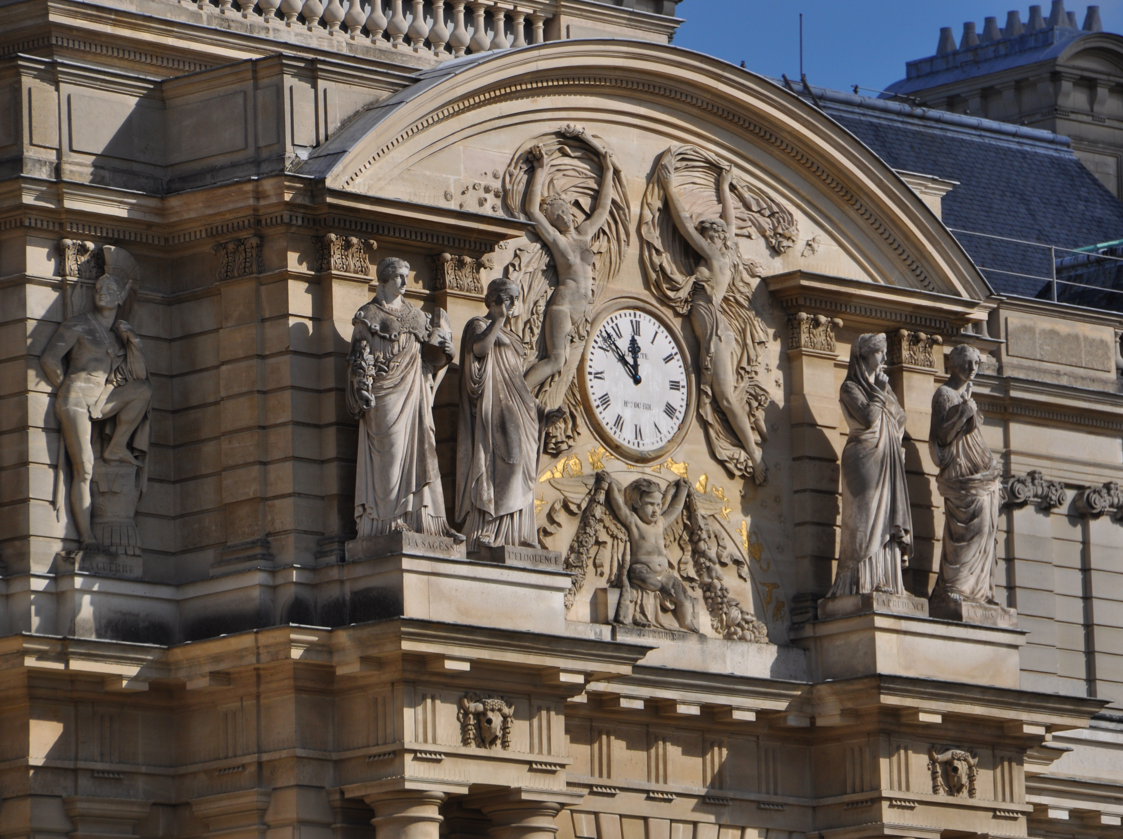 Clock of Palais du Luxembourg, Paris. The sculptor of the decoration surrounding the clock was James Pradier.